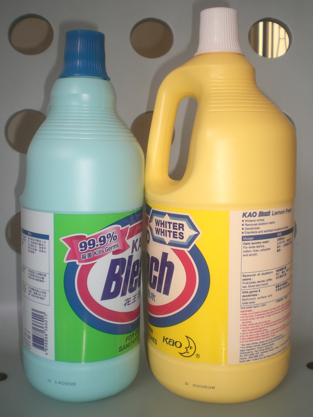 家庭用品 花王牌 漂白劑